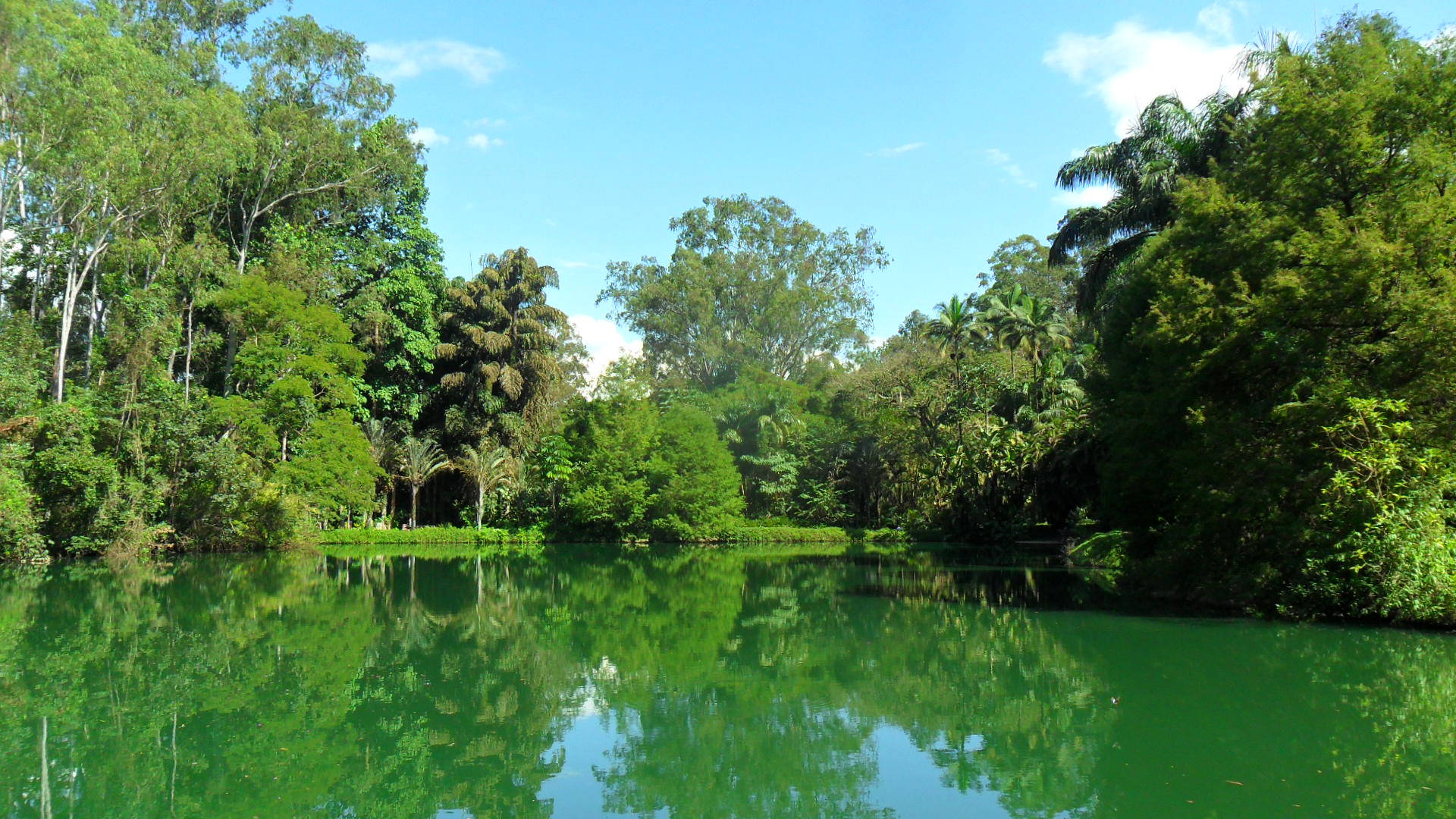 Lake at Instituto Inhotim in Brumadinho, Minas Gerais, Brazil